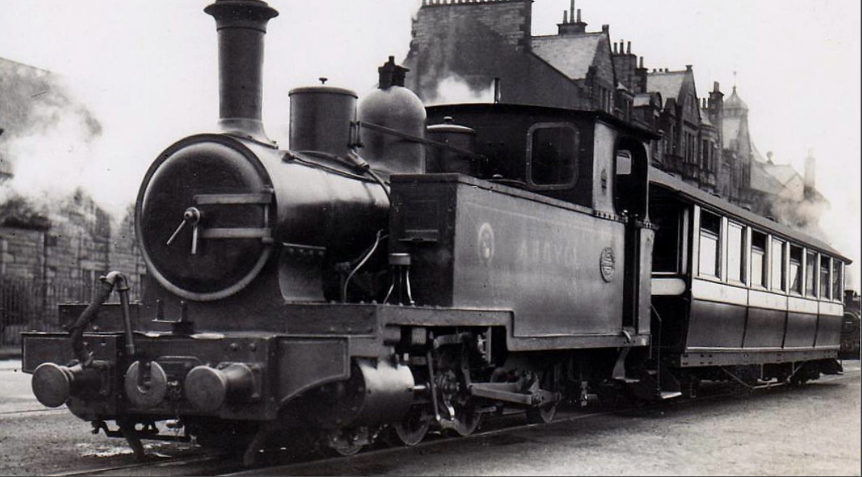 Campbeltown and Machrihanish Light Railway - Argyll - 0-6-2T built 1906 by Andrew Barclay - 2ft 3inch light railway built in 1905 and closed in 1933